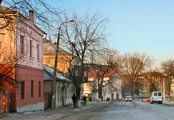 Daniel of Galicia street